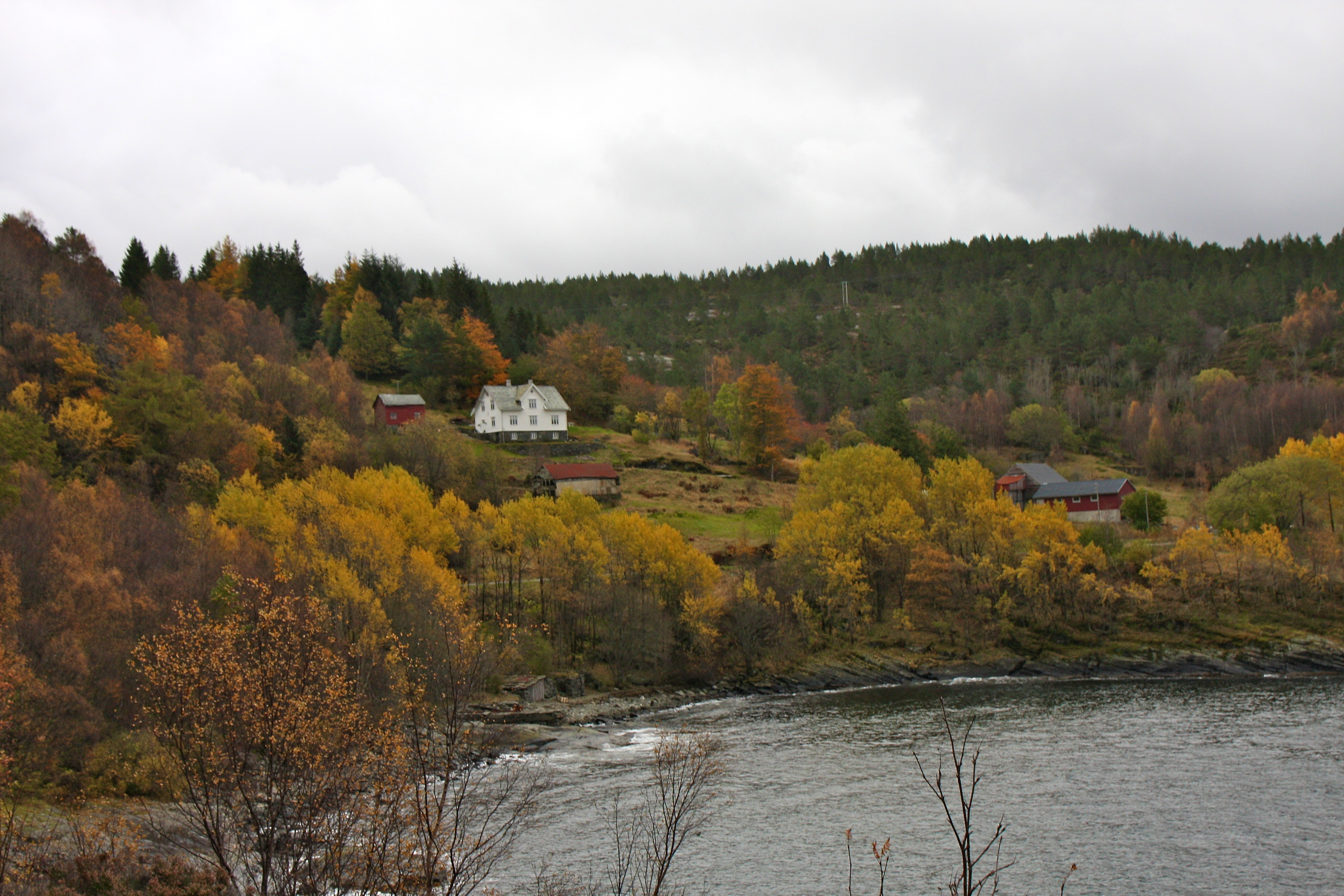 Fallebø in Gulen municipality, Norway.